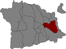 Location of Fontanals de Cerdanya in Baixa Cerdanya